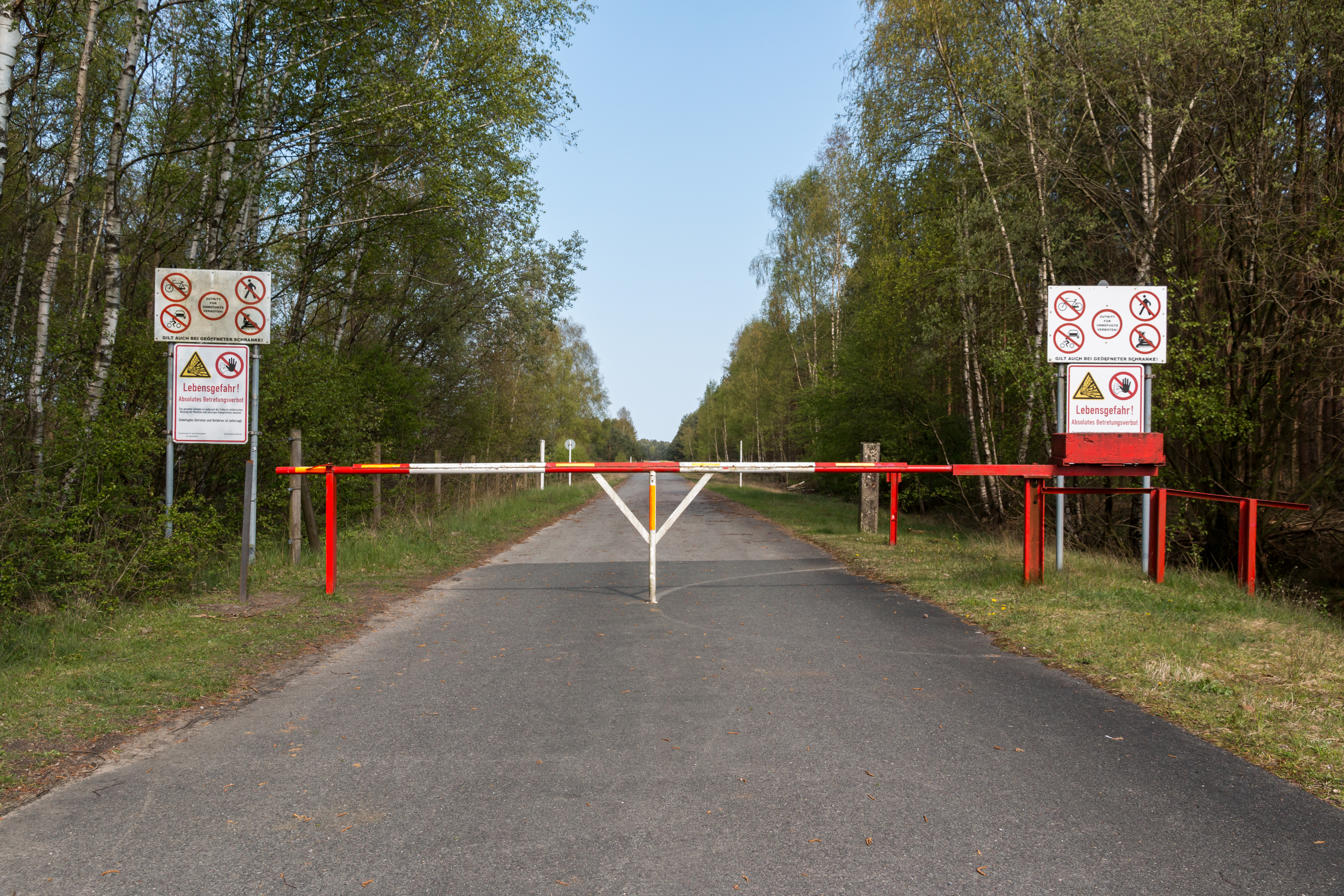 Nature reserve “Borkenberge”, Lüdinghausen, North Rhine-Westphalia, Germany